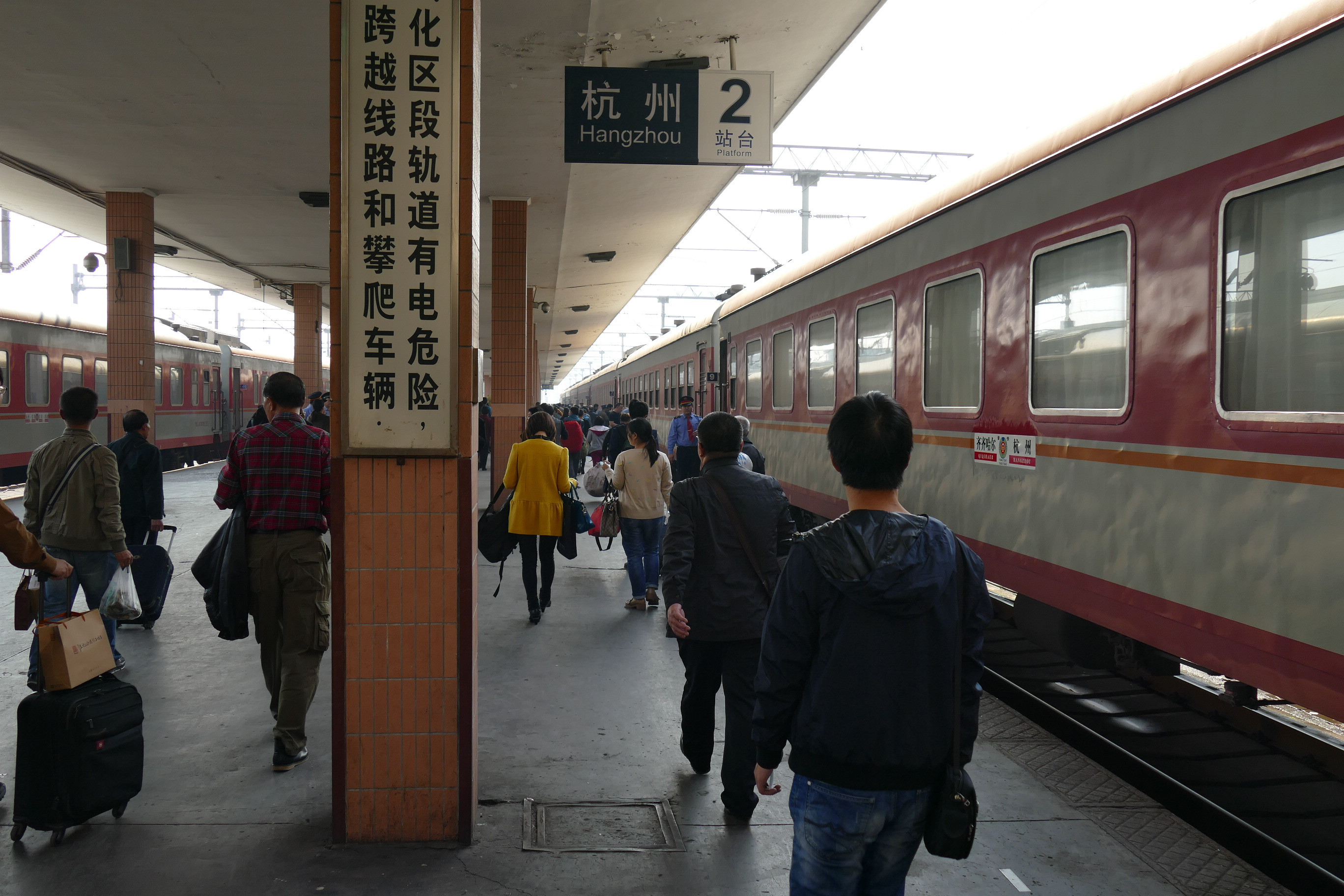 Platform at the train station - Hangzhou, Zhejiang, China, 22.11.2014